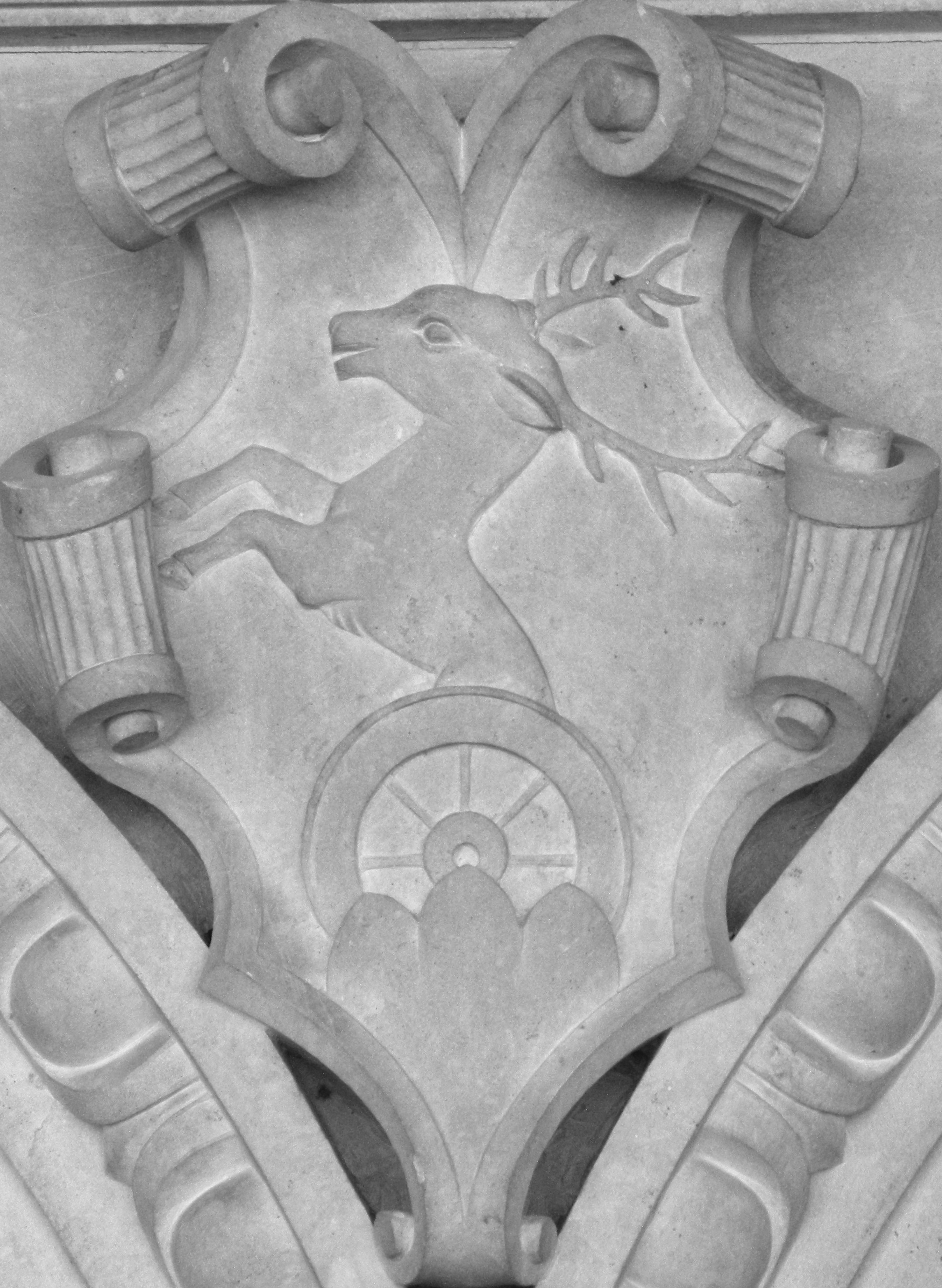 Coat of arms of Pálffy family, balcony of the chapel in Bojnice Castle.